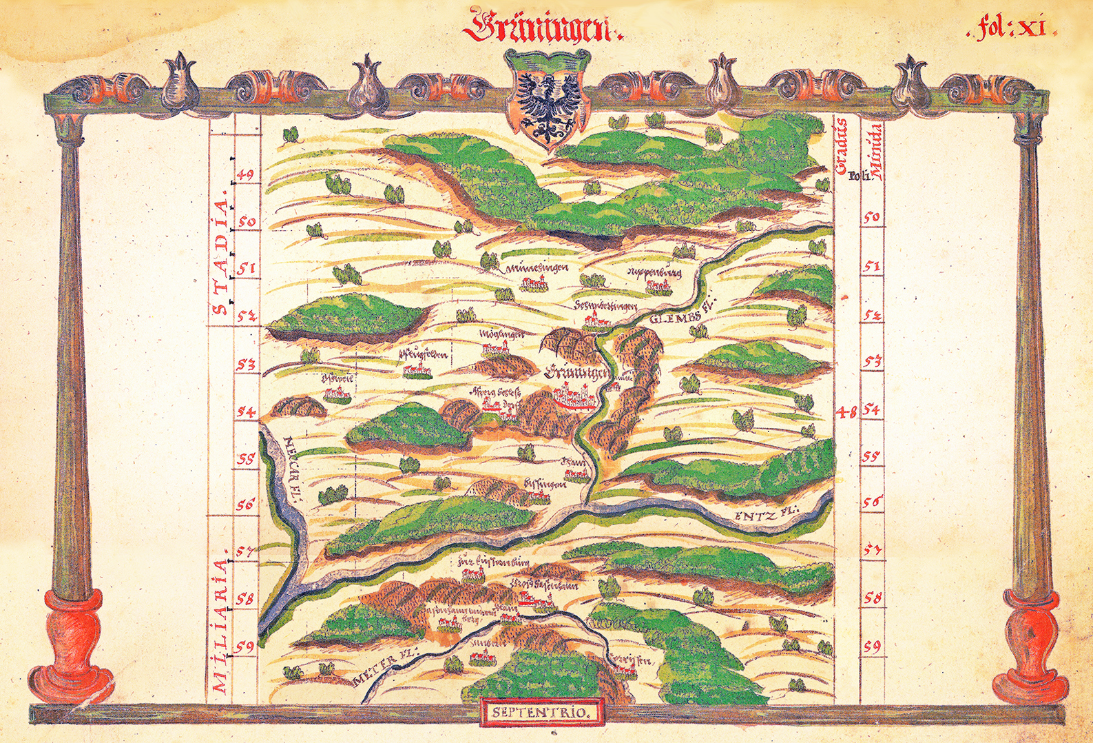 District map of „Amt Grüningen“ (today Markgröningen) with „Amtsflecken“ (villages) Pflugfelden, Münchingen, Schwiebertingen, Nippenburg, Oßweil, Pflugfelden, Möglingen, Schloß und Dorf Asperg (Hohen- und Unterasperg), Thamm, Bissingen, Saßenheim underm Berg (Untermberg), Zur Eyssern Burg (Egartenhof), Großsaßenheim, Kleinsaßenheim, Zimbern (Metterzimmern) and Sarissen (Sersheim). fol. XI of Atlas des Herzogtums Württemberg